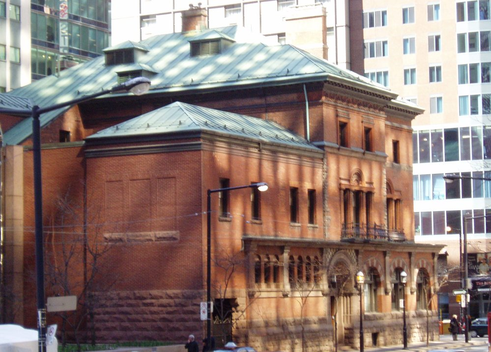 This is the 'Toronto Club' on Wellington Street.